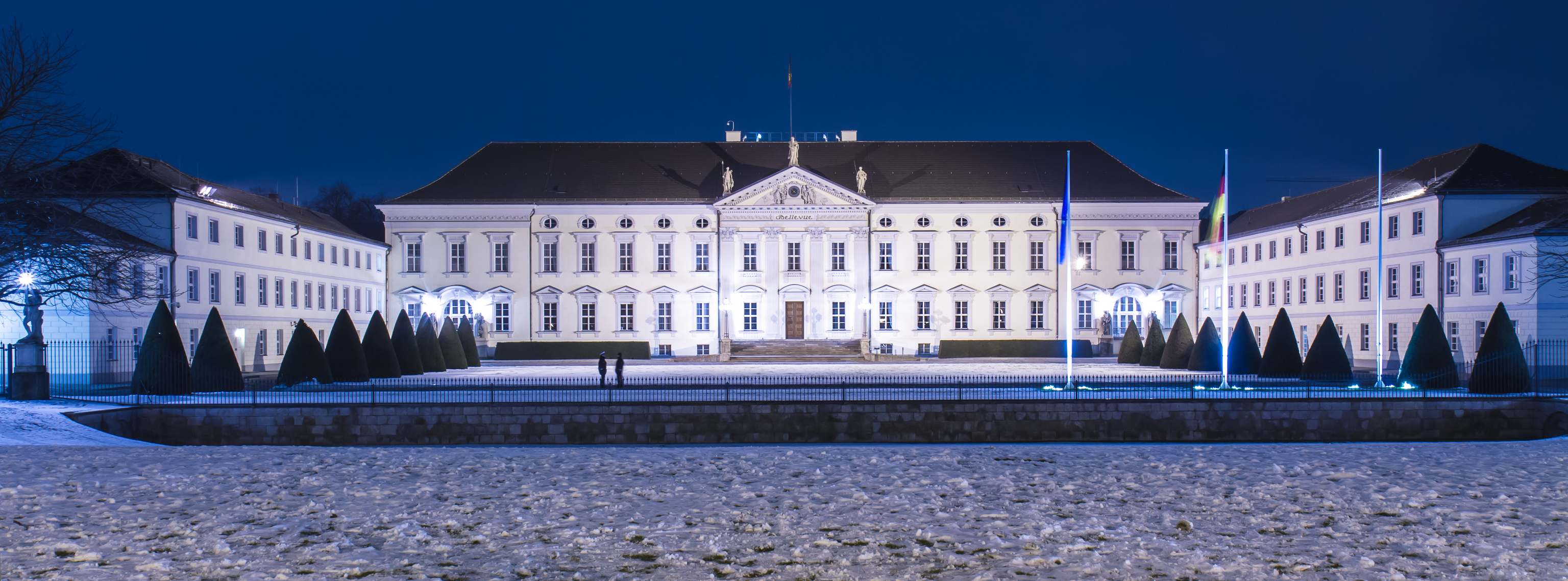 Nightly view of Bellevue Palace